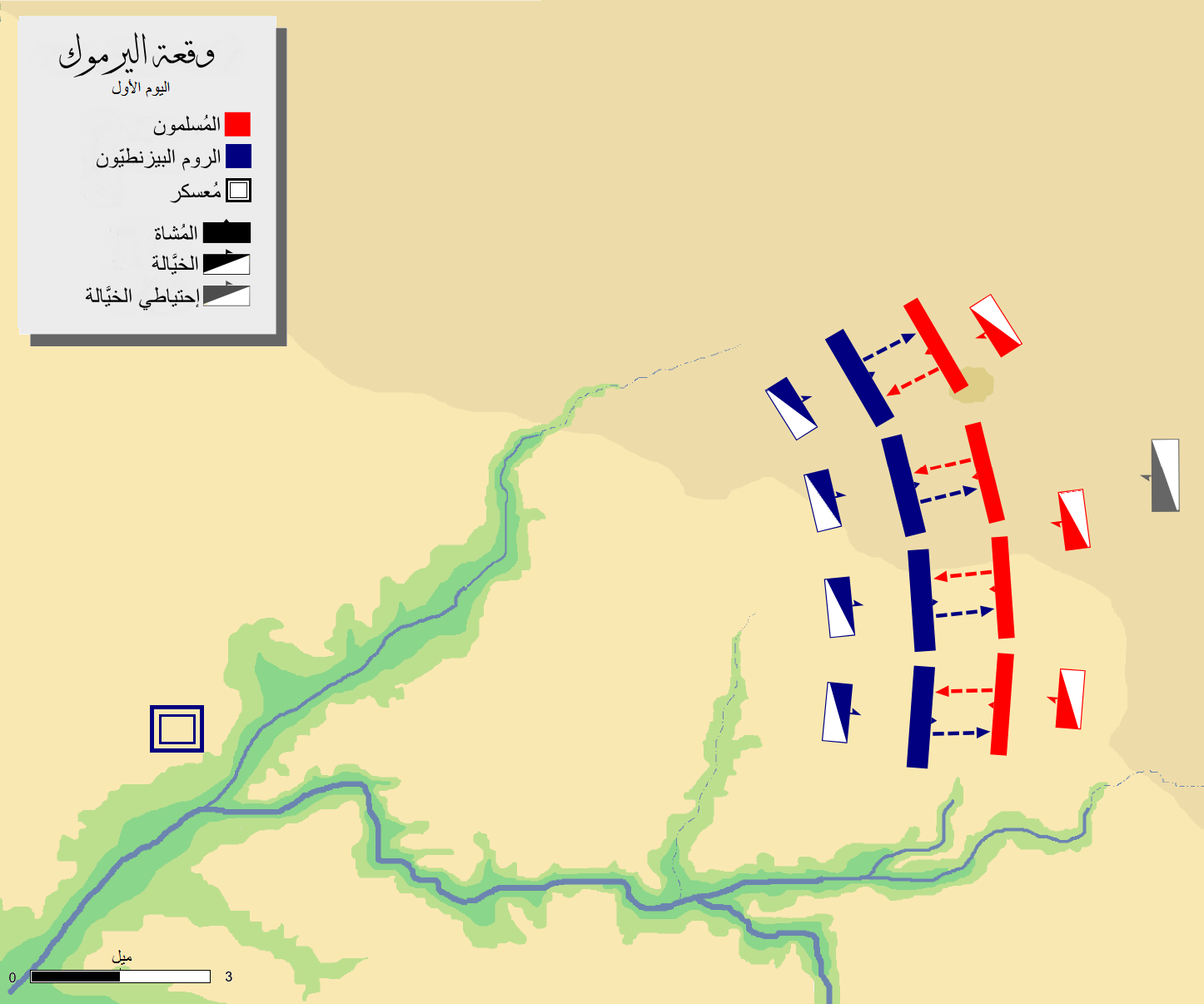 Battle of Yarmouk-day-1